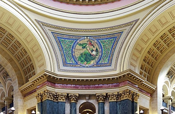 Liberty mural design by Kenyon Cox, Wisconsin State Capitol dome interior